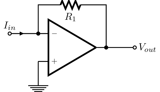 Transimpedance or Transresistence Amplifier builded using an op-amp